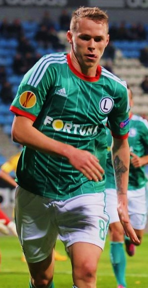 Ondrej Duda